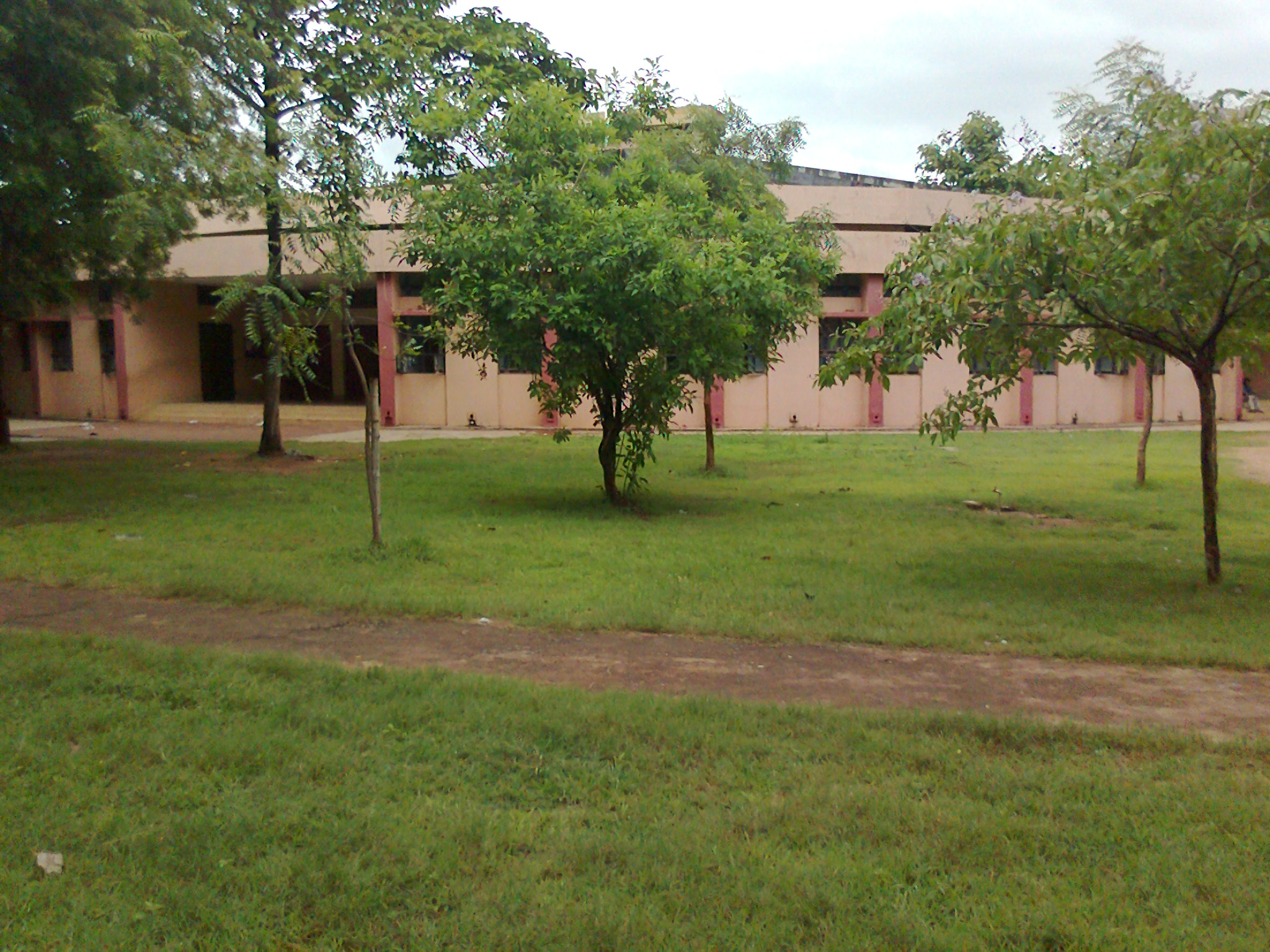 New Catholic Church Rourkela